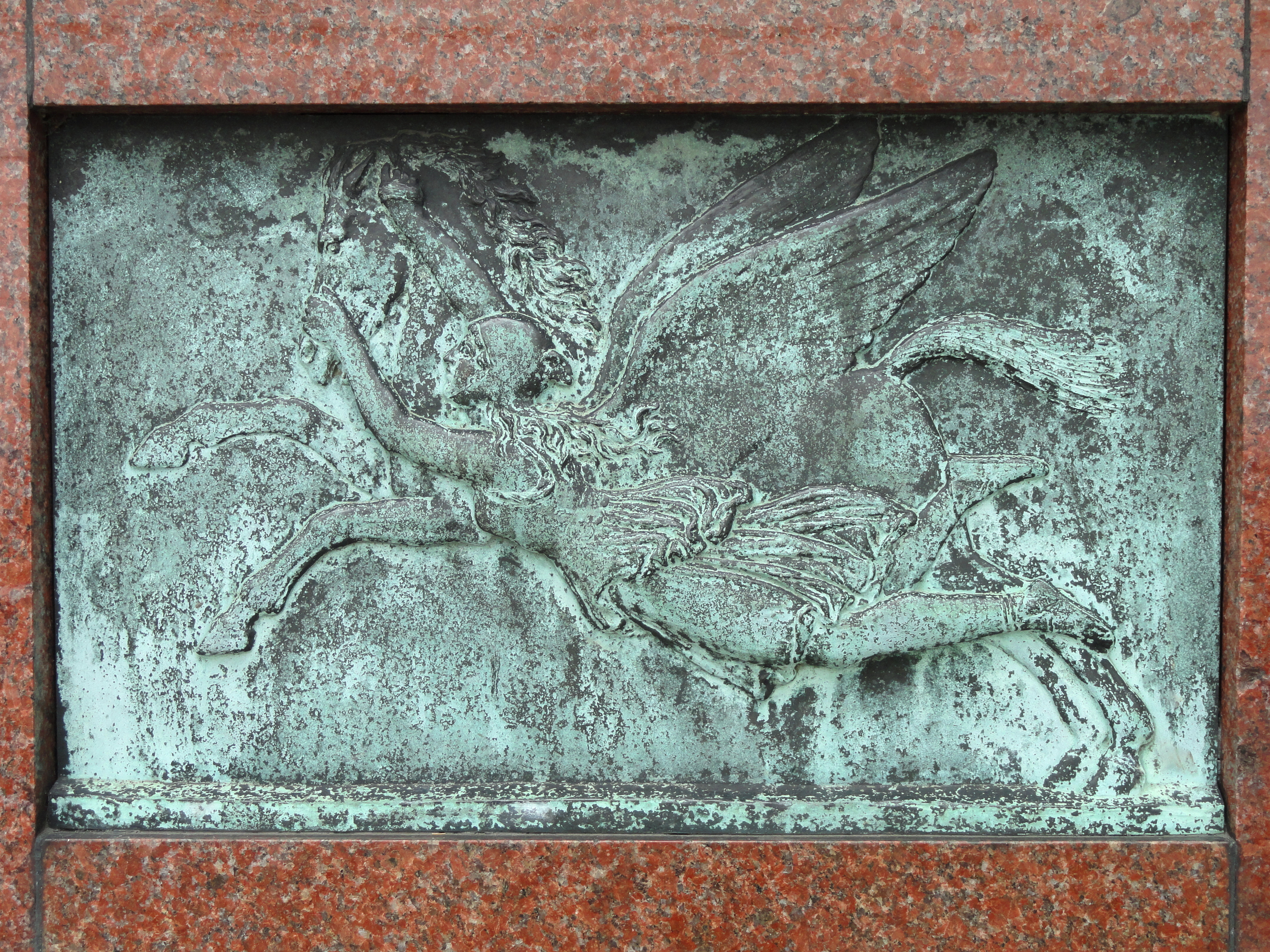 Statue of J.P.E. Hartmann by August Saabye, Copenhagen, Denmark. This sculpture is in the public domain because the sculptor died more than 70 years ago.